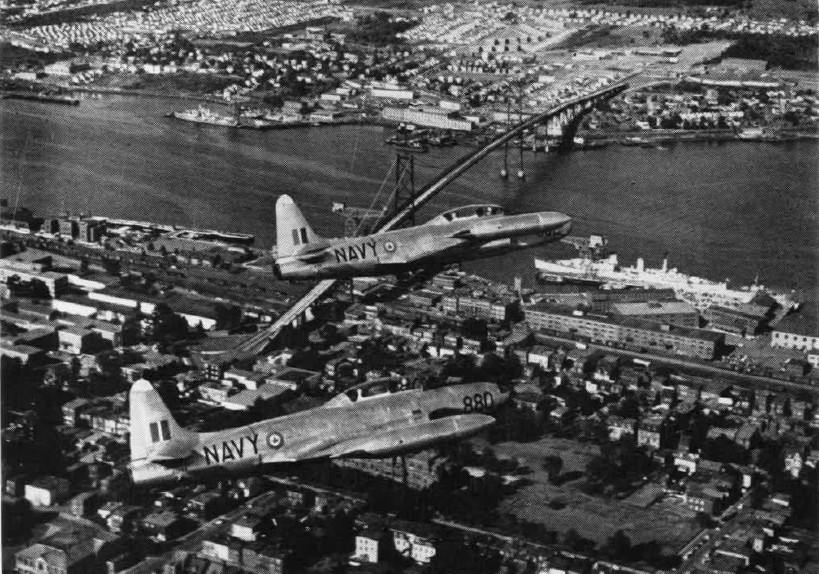 Two Canadair CT-133 Silver Star trainers of the Royal Canadian Navy flying over Angus MacDonald Bridge between Dartmouth and Halifax, Nova Scotia (Canada), in 1957. The CT-133 was a Canadian-built Lockheed T-33A Shooting Star.